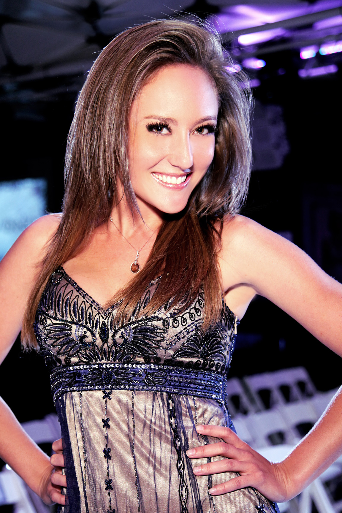 Lauren Mayhew, Los Angeles, CA on September 21, 2012